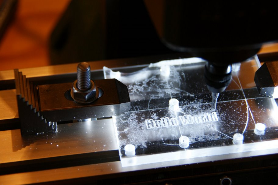 Home-made CNC milling machine producing a Hello World test piece in Perspex. The machine itself is a small Proxxon, with stepper motors and control system added. Thanks to Jarkman for the use of the mill and camera.